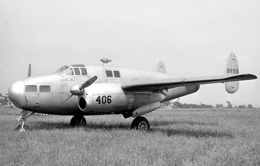 Surplus at Vail Field, California, on May 17, 1946. These were also built by Bellanca for the war training effort.